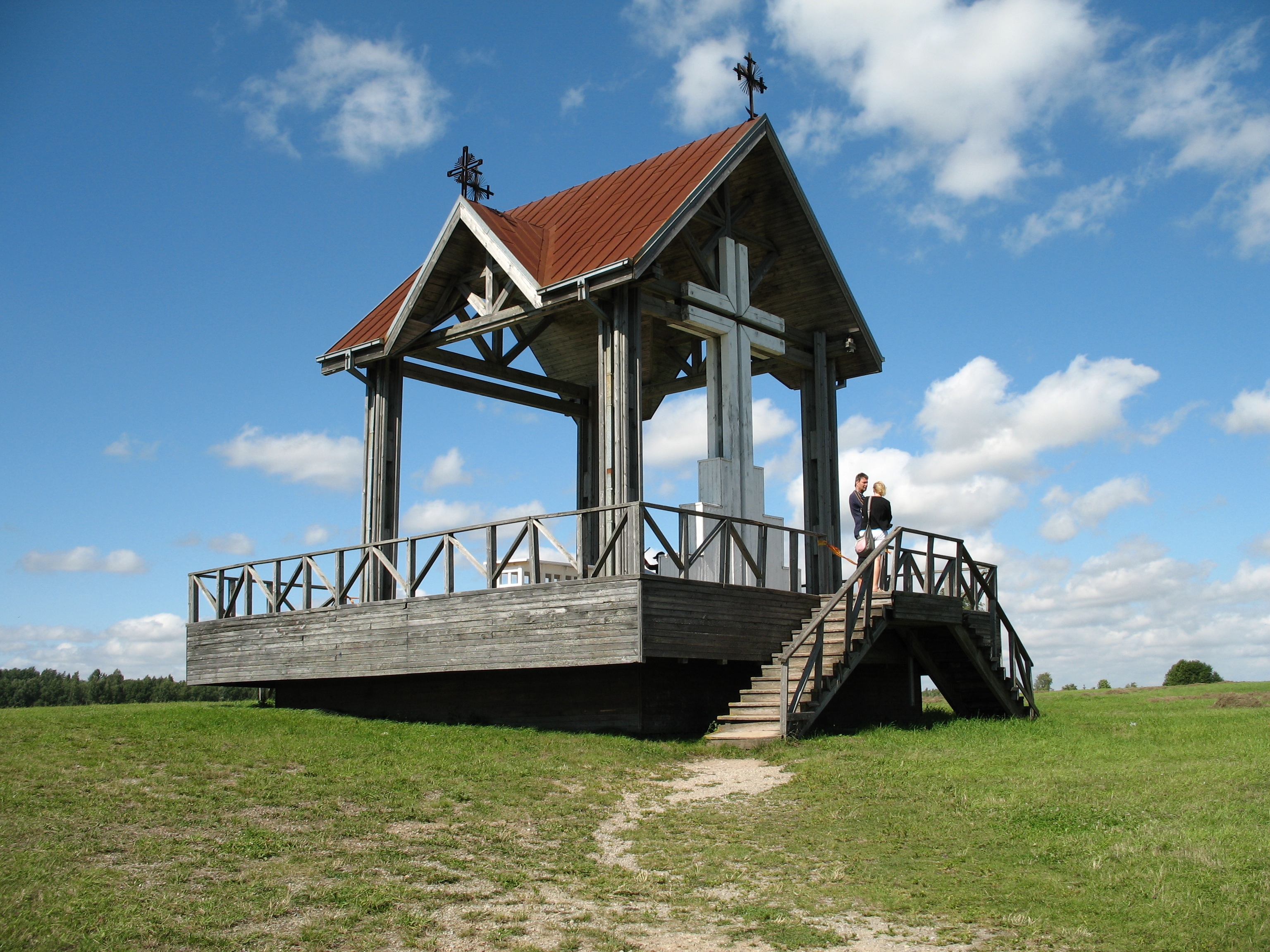 The cross, established by Pope John Paul II, Hill of Crosses, Lithuania